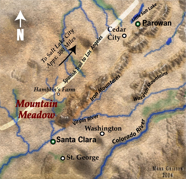 Map of Southern Utah in 1857, highlighting the Mountain Meadows area including the Wasatch Mountains and Colorado River. This is a cropped version of Image:Mountain meadows map5.jpg in the more appropriate PNG format. Note: This map is not accurate, although I can't speak to how effectively it locates the Hamblin house (now a museum in Santa Clara) or Mountain Meadows. Washington, St. George, and Santa Clara are all shown 10-20 miles east of their actual locations. Notice that Santa Clara, not St. George, is shown to be on the Virgin River.